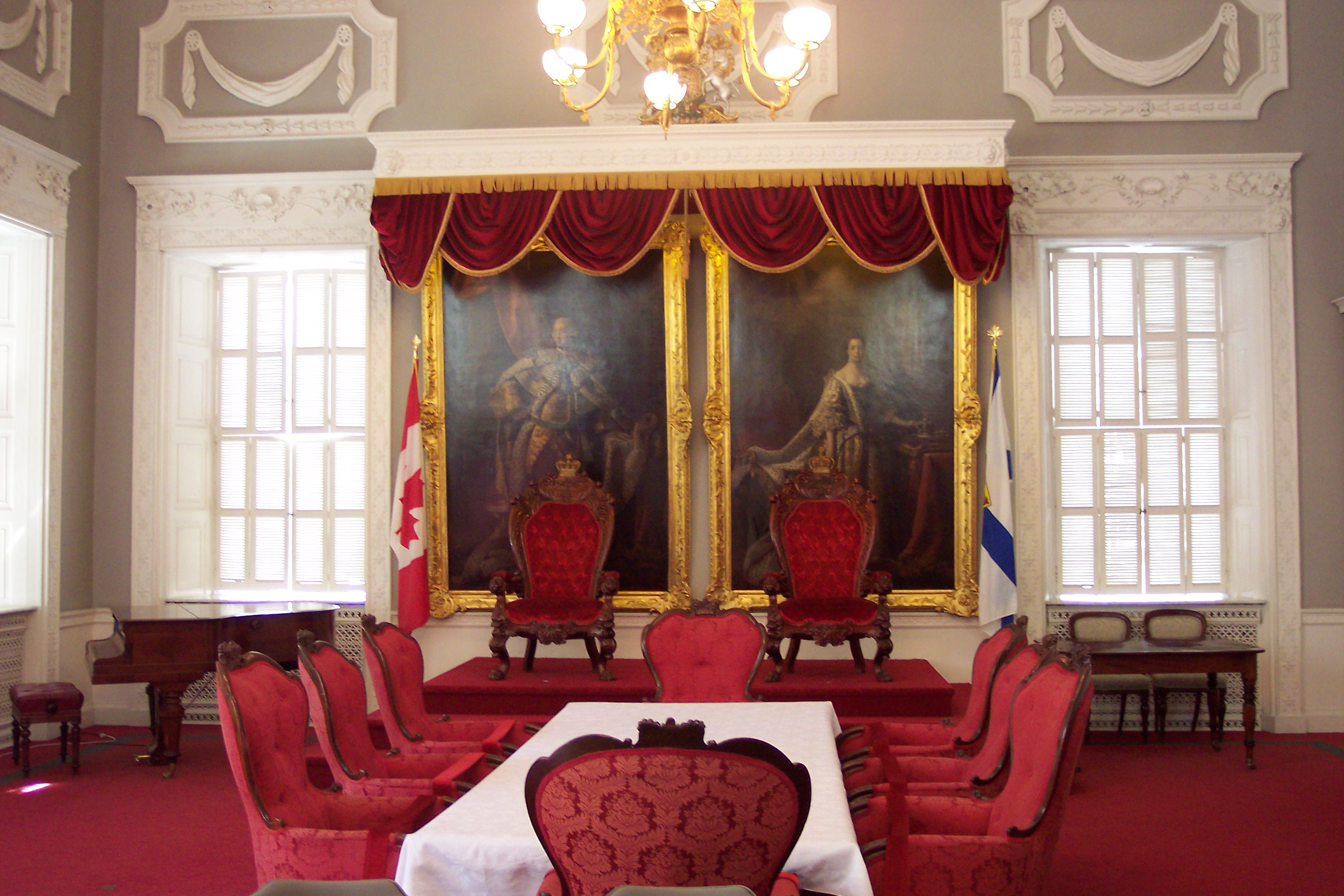 The Red Room of Province House in Halifax, Nova Scotia, Canada. After Allan Ramsay (1713–1784) DescriptionBritish painterDate of birth/death 13 October 1713 10 August 1784 Location of birth/death Edinburgh DoverWork location London, Rome, EdinburghAuthority control : Q560792 VIAF: 49266202 ISNI: 0000 0000 9576 2163 ULAN: 500019302 LCCN: n85011073 NLA: 35440991 WorldCat creator QS:P170,Q4233718,P1877,Q560792 George III of the United Kingdom, Sophie Charlotte zu Mecklenburg-Strelitz